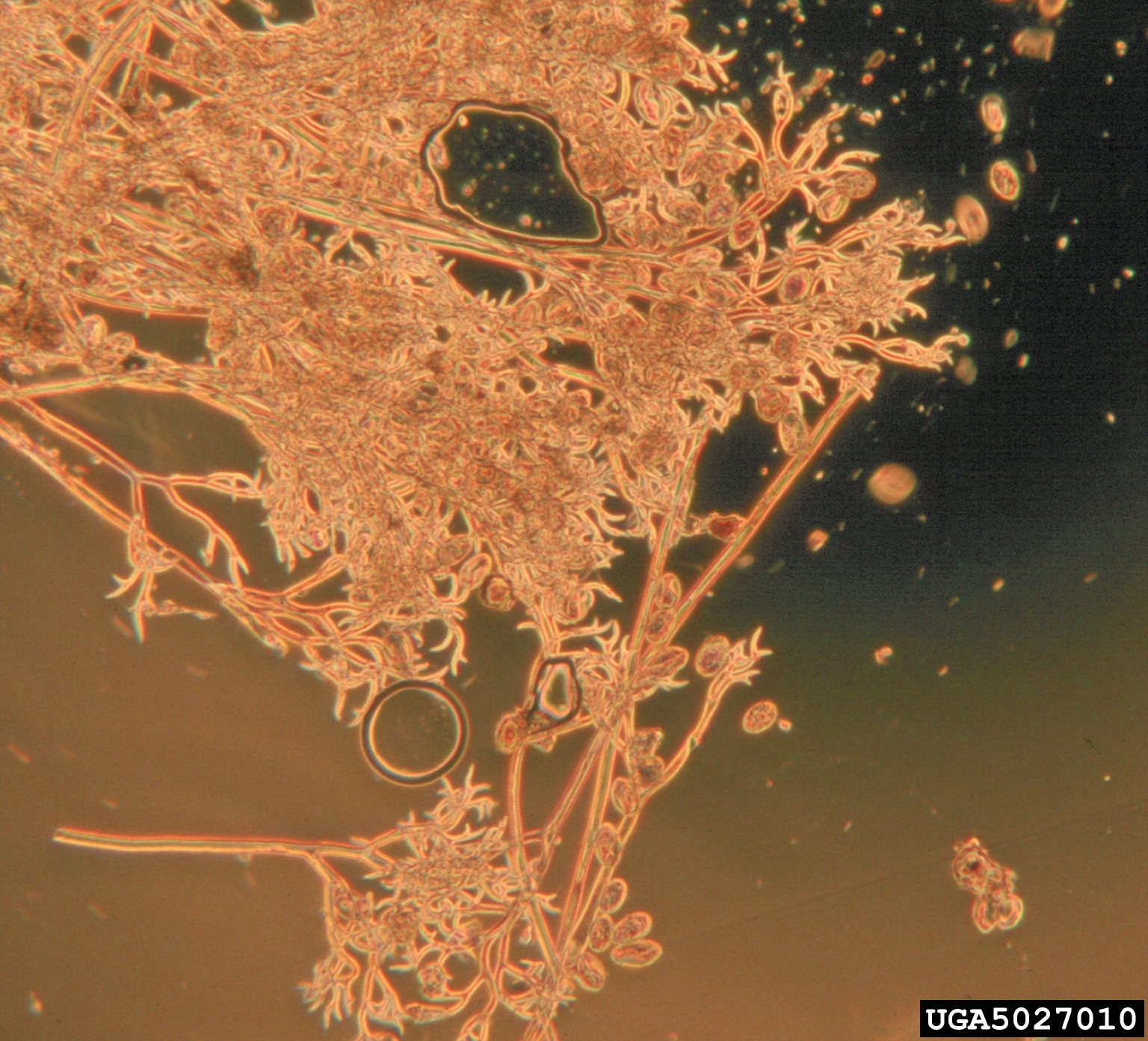 Peronospora potentillae. Asexual spore.